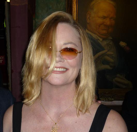 Cybill Shepherd. April 1, 2010